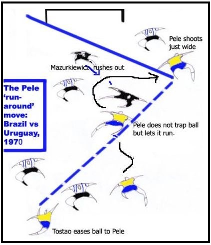 The Pele runaround individual move- Brazil vs Uruguay, 1970 World Cup